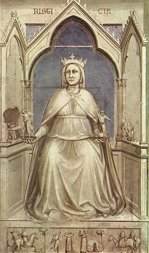 Life of Christ